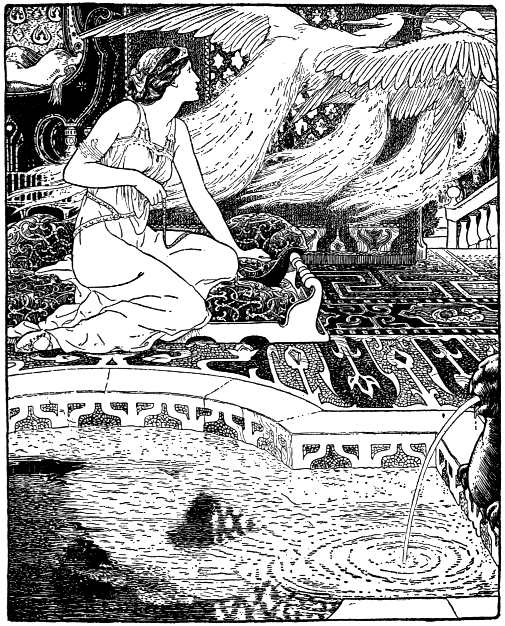 illustration to a book of tales, page 37, the removed caption stated "THE FLIGHT OF THE SWAN MAIDENS"